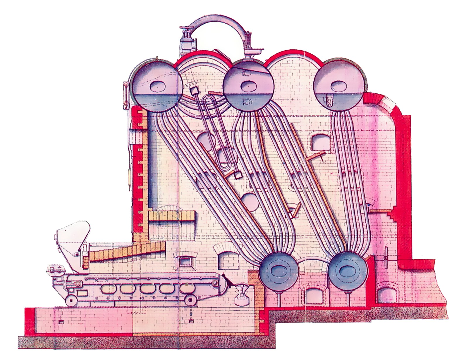 Stirling boiler (Heat Engines, 1913).jpg